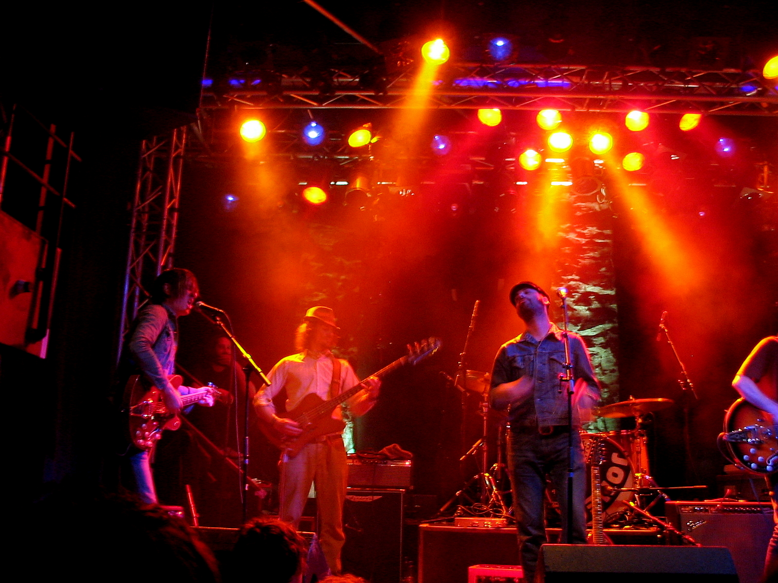 The Brian Jonestown Massacre